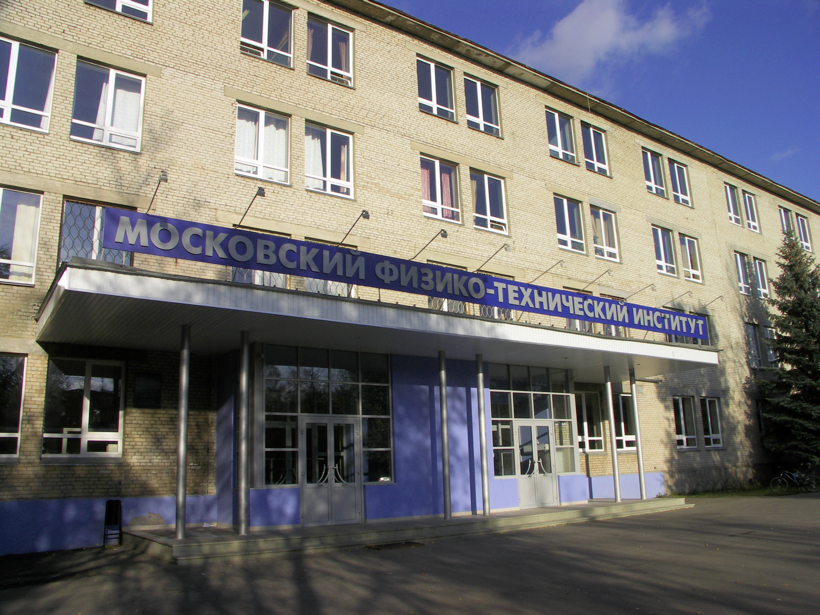 MIPT Department of Aeromechanics and Flight Engineering (FALT MFTI) Building in Zhukovsky.